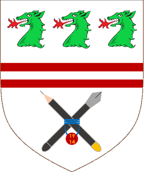 Shield of arms of The Viscount Stansgate